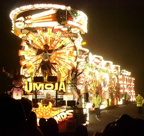 "Umoja" by Vagabonds CC, Burnham on Sea Carnival 2006